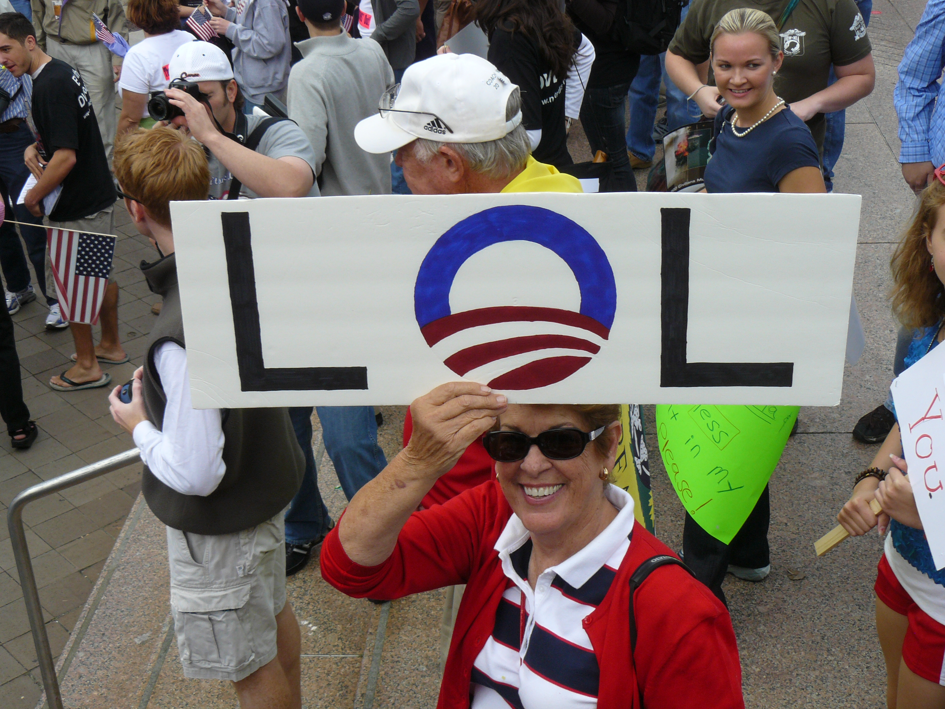 Tea Party Protest, Washington D.C., September 12, 2009, LOL